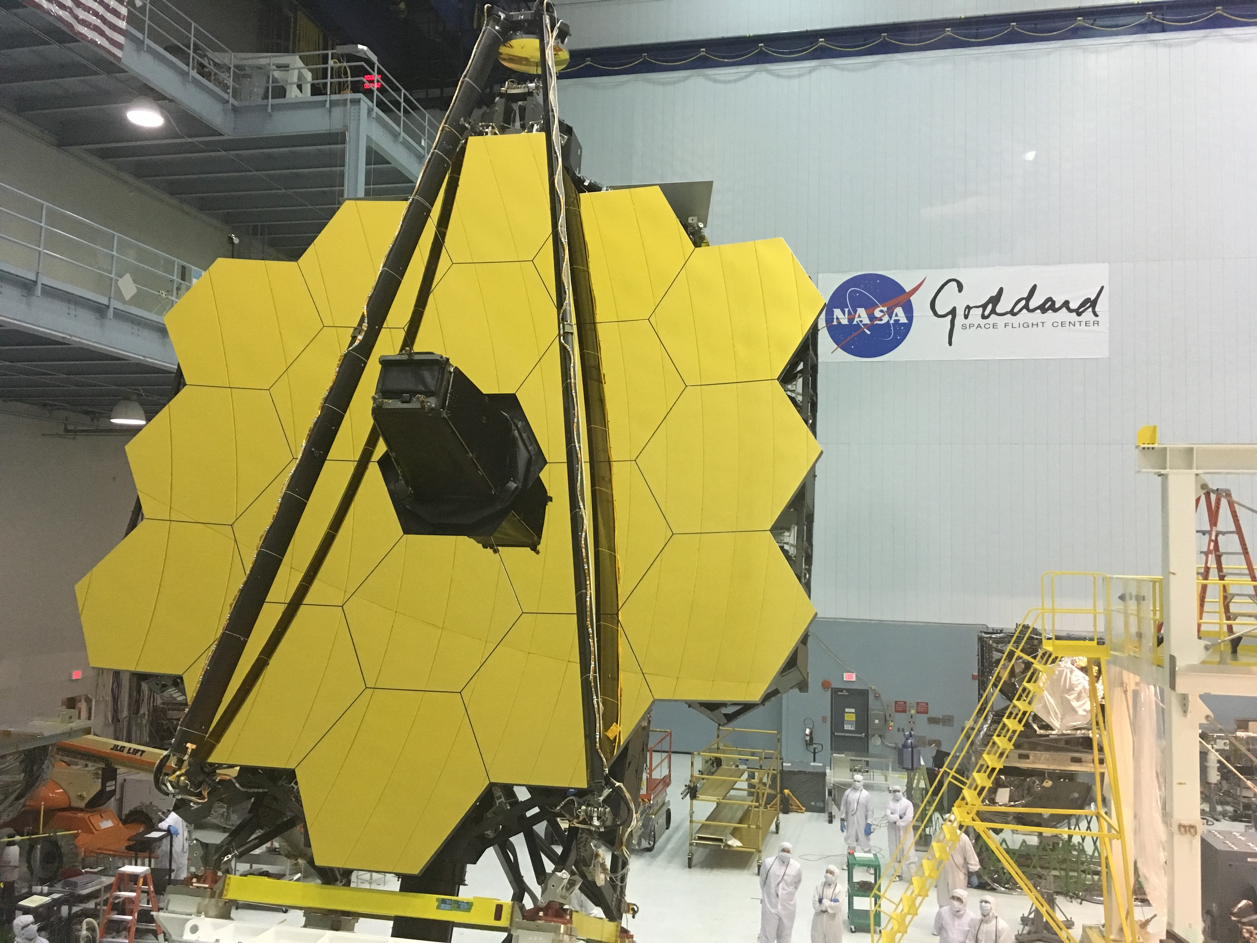 A rare view of the James Webb Space Telescope face-on, from the NASA Goddard cleanroom observation window.